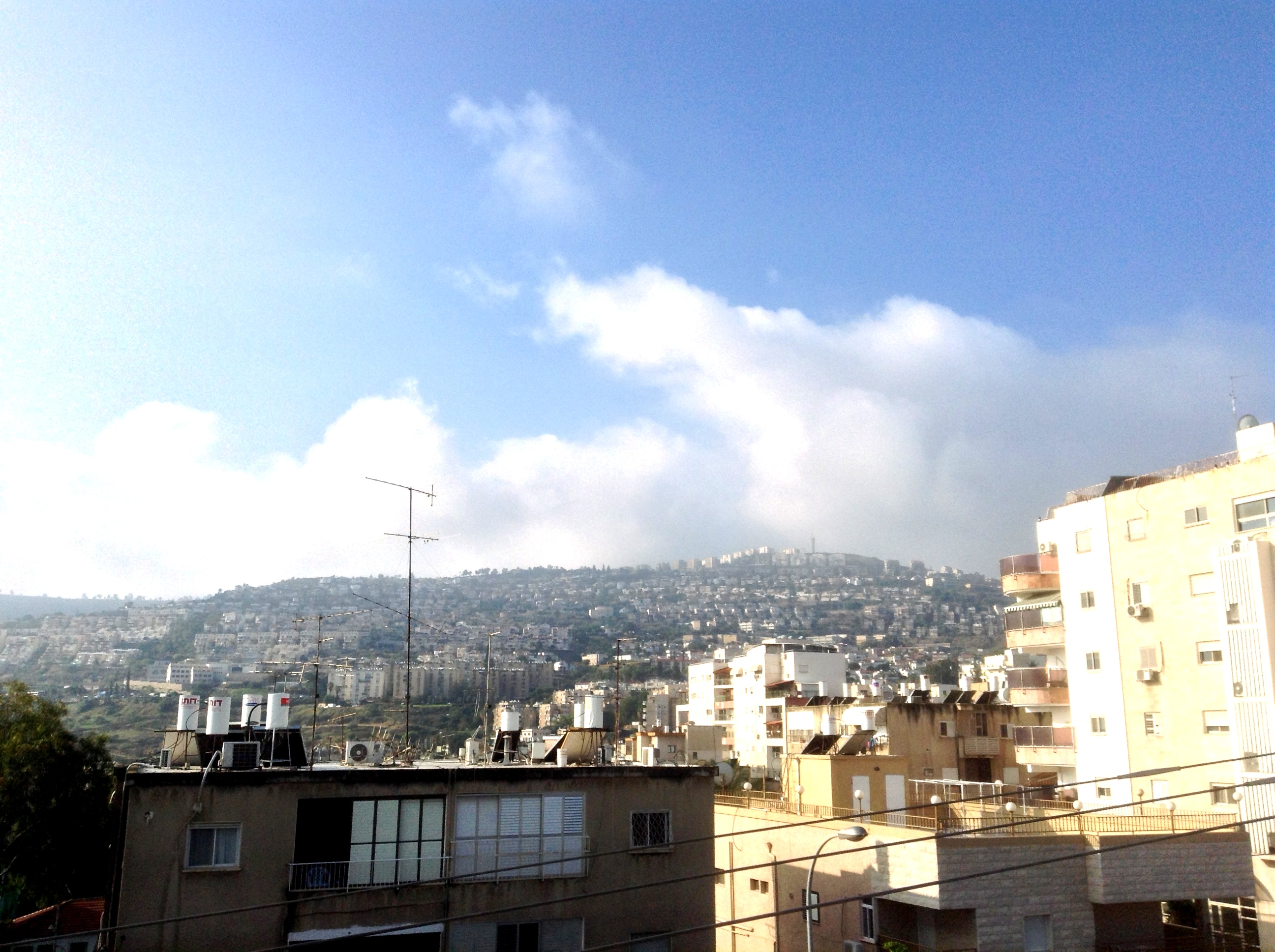 Tiberias